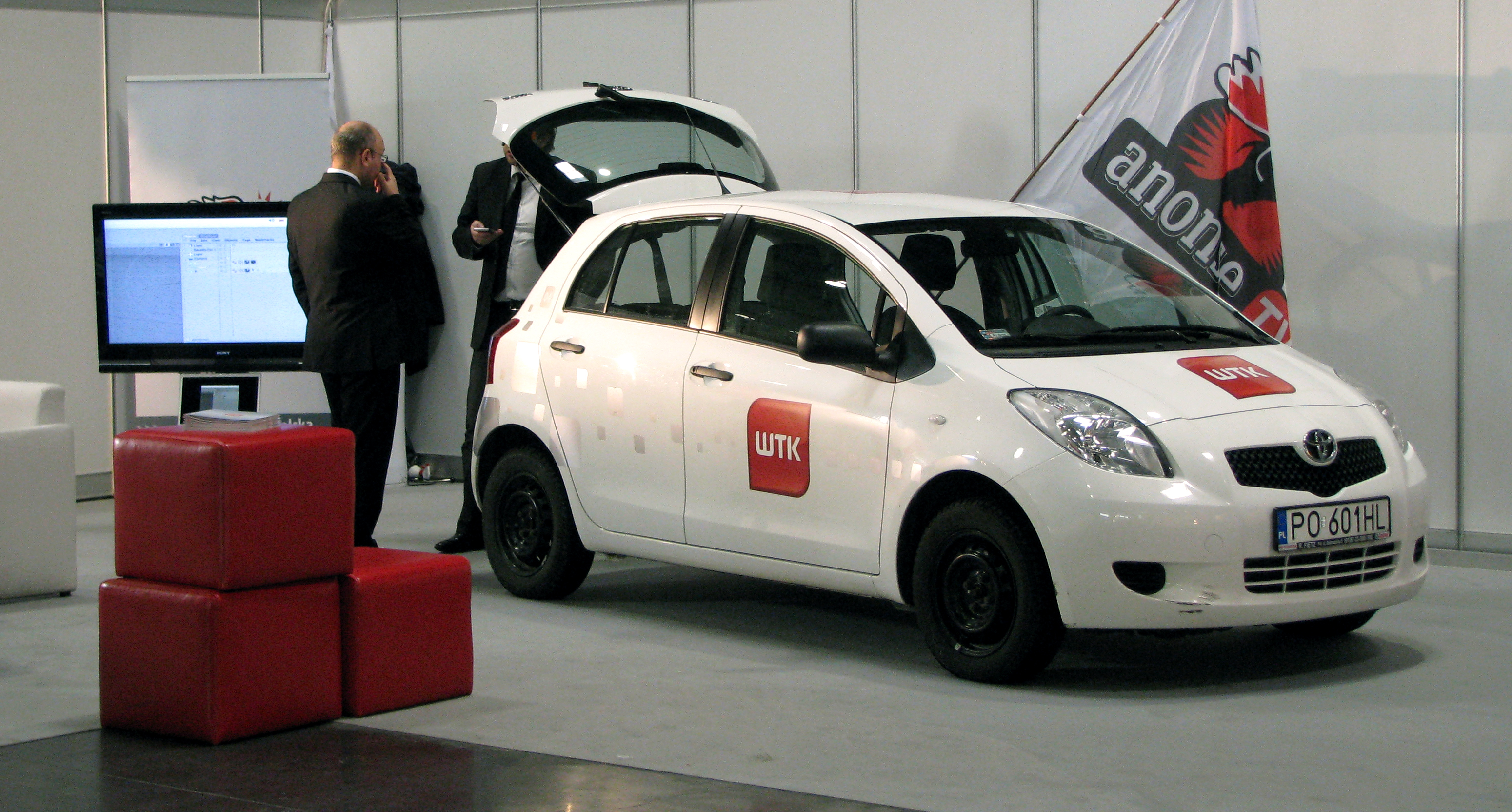 OB Van. WTK TV. Poznan. Poland.